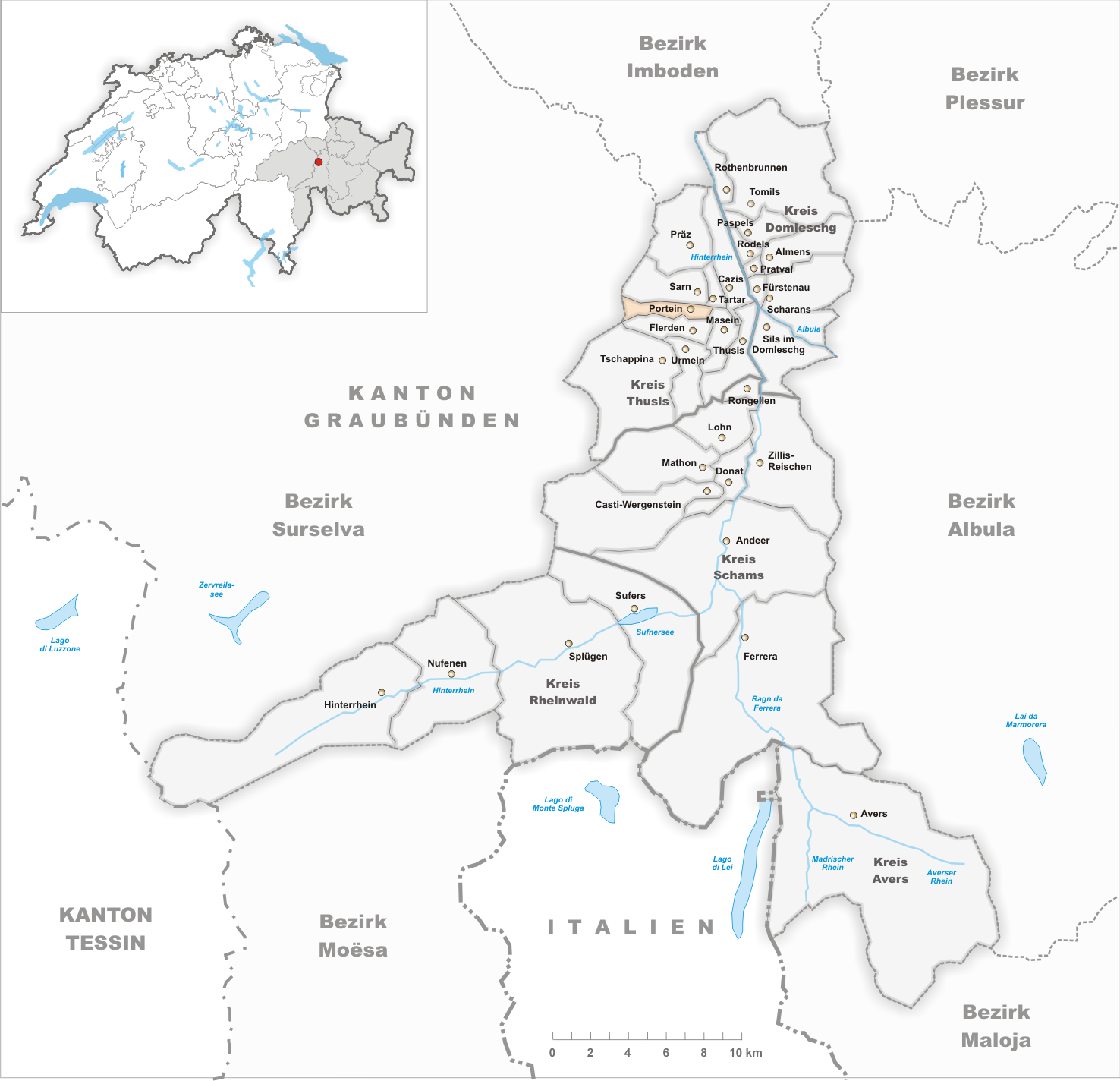 Municipality Portein